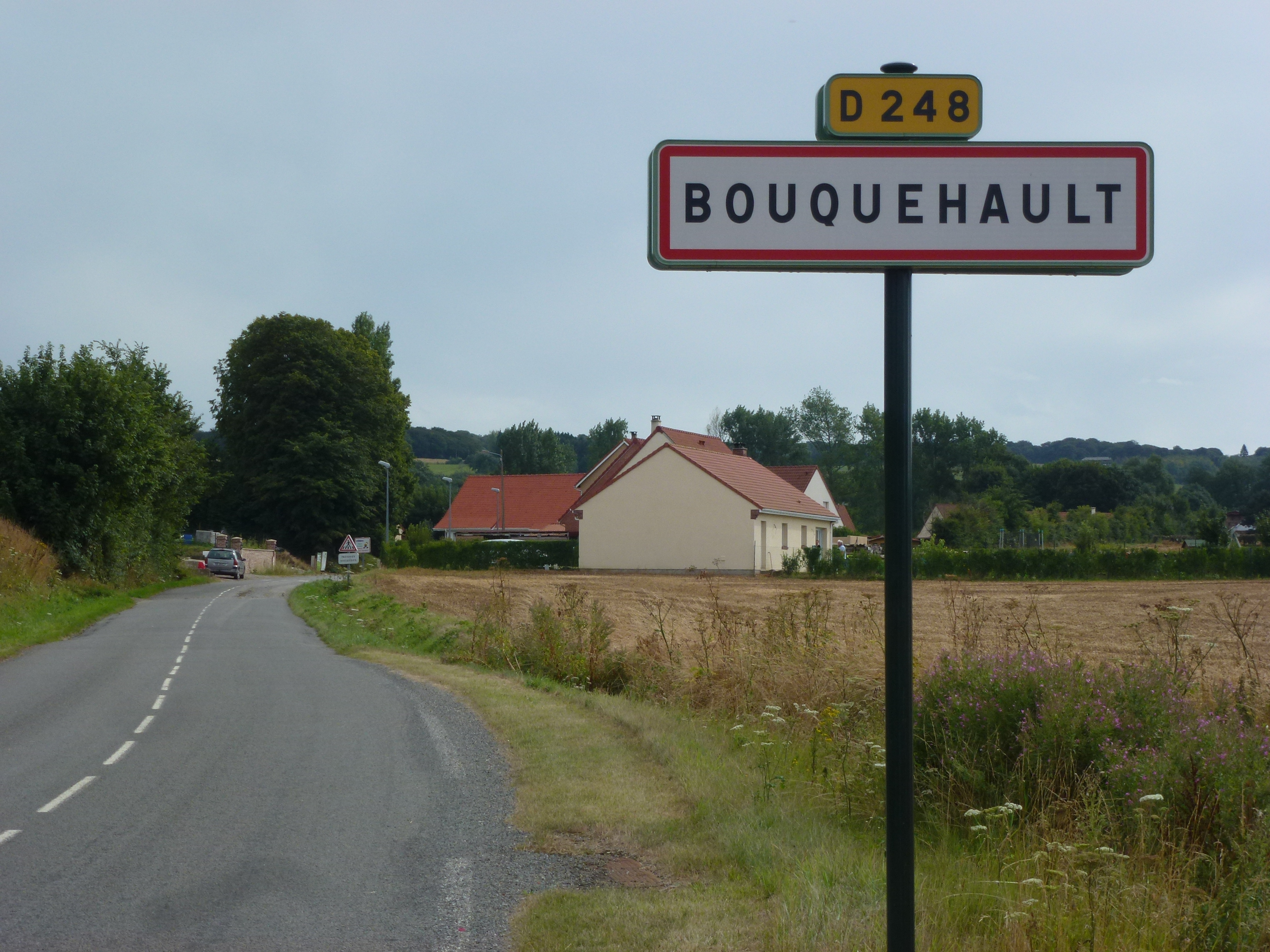 Bouquehault (Pas-de-Calais) city limit sign